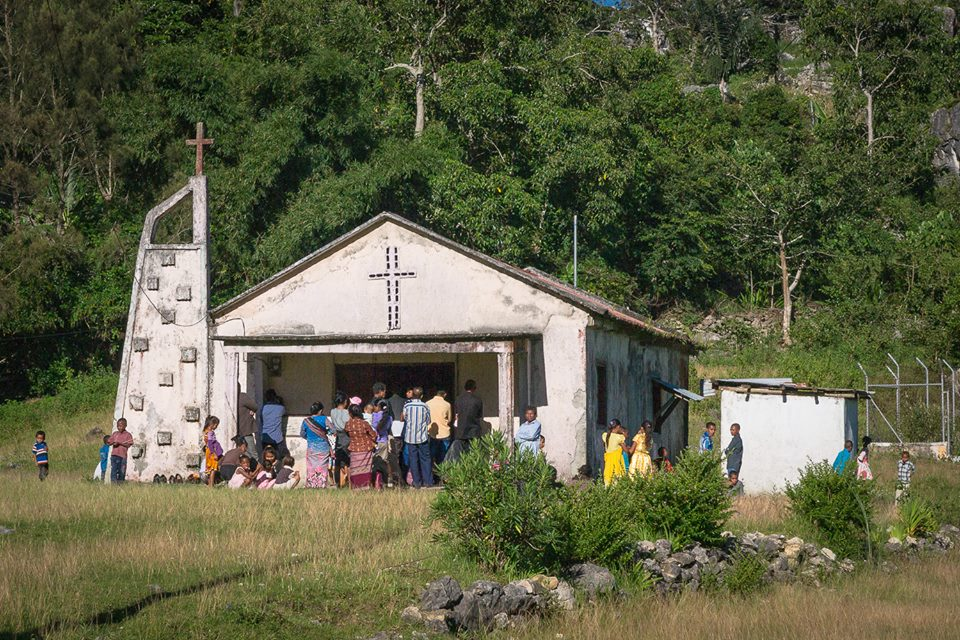 Church of Kaiwati, administrative post of Ossu